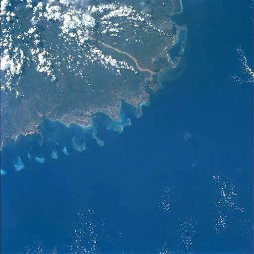 Cape Delgado, Tanzania & Mozambique The Rovuma River rises in the Matagoro Mts. in southeastern Tanzania and marks the border between Tanzania (north) and Mozambique (south). The Rovuma is navigable to about 100 km inland, to the Upinda cataract. The delta of the Rovuma has built outward onto the continental shelf to create the broad, arcuate Cape Delgado. Islands and shoals, with their surrounding shallow turquoise waters, form the delta fringe. Image Science and Analysis Laboratory, NASA-Johnson Space Center. "The Gateway to Astronaut Photography of Earth." Mission: STS097 Roll: 711 Frame: 93 Mission ID on the Film or image: STS97 Country or Geographic Name: MOZAMBIQUE Features: ROVUMA RIVER, REEFS Center Point Latitude: -11.0 Center Point Longitude: 40.5 (Negative numbers indicate south for latitude and west for longitude) Stereo: (Yes indicates there is an adjacent picture of the same area) Camera Camera Tilt: 24 Camera Focal Length: 250mm Camera: HB: Hasselblad Film: 5069 : Kodak Elite 100S, E6 Reversal, Replaces Lumiere, Warmer in tone vs. Lumiere. Quality Percentage of Cloud Cover: 25 (11-25) Nadir Date: 20001210 (YYYYMMDD)GMT Time: 130220 (HHMMSS) Nadir Point Latitude: -9.7, Longitude: 41.0 (Negative numbers indicate south for latitude and west for longitude) Nadir to Photo Center Direction: South Sun Azimuth: 249 (Clockwise angle in degrees from north to the sun measured at the nadir point) Spacecraft Altitude: 191 nautical miles (354 km) Sun Elevation Angle: 33 (Angle in degrees between the horizon and the sun, measured at the nadir point) Orbit Number: 148